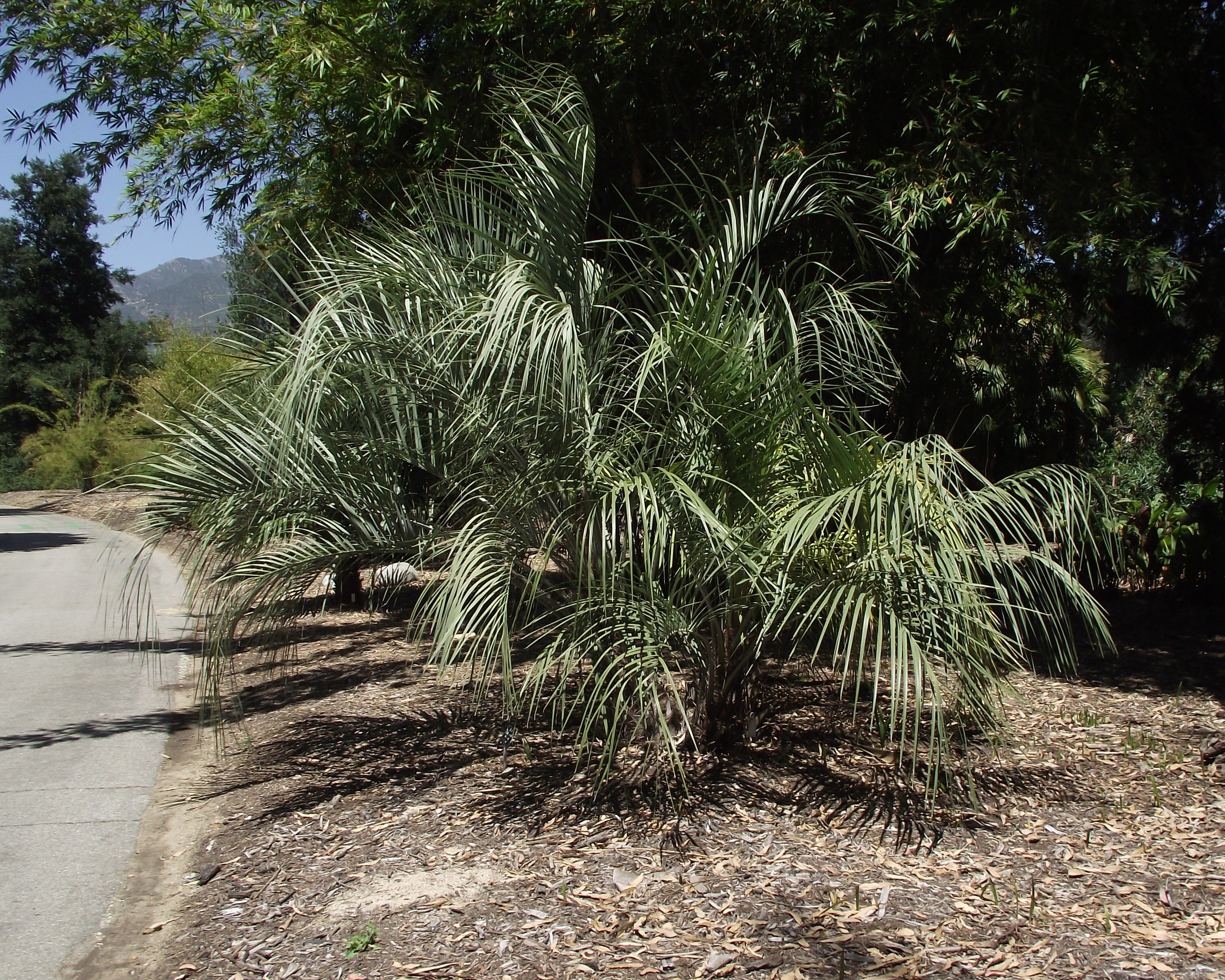 Butia paraguayensis at the Los Angeles County Arboretum, Arcadia, California, USA. Identified by sign.